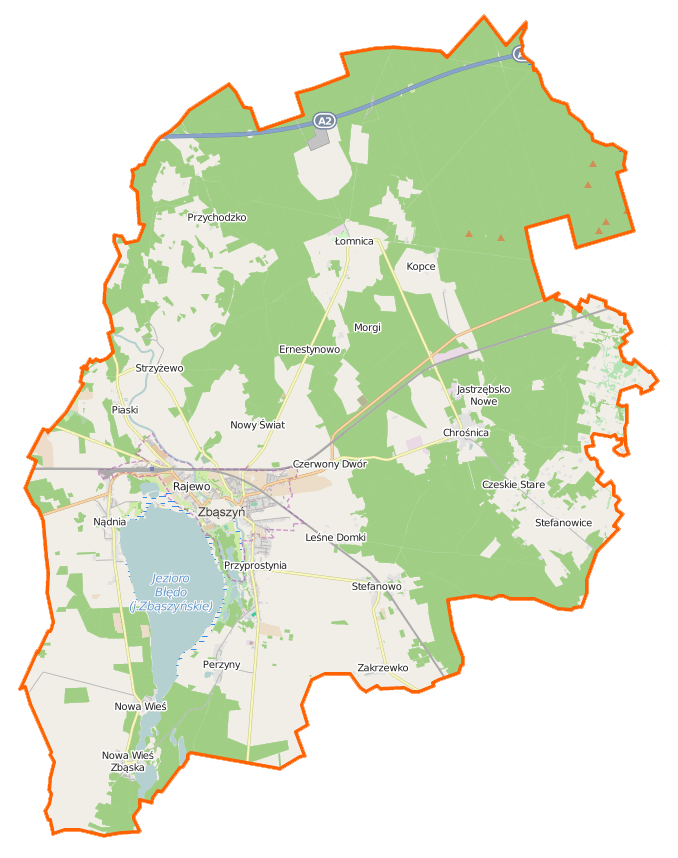 Map of Gmina Zbąszyń, Poland This map of Zbąszyń (gmina) was created from OpenStreetMap project data, collected by the community. This map may be incomplete, and may contain errors. Don't rely solely on it for navigation. Border coordinates52.357815.8426←↕→16.075452.1777